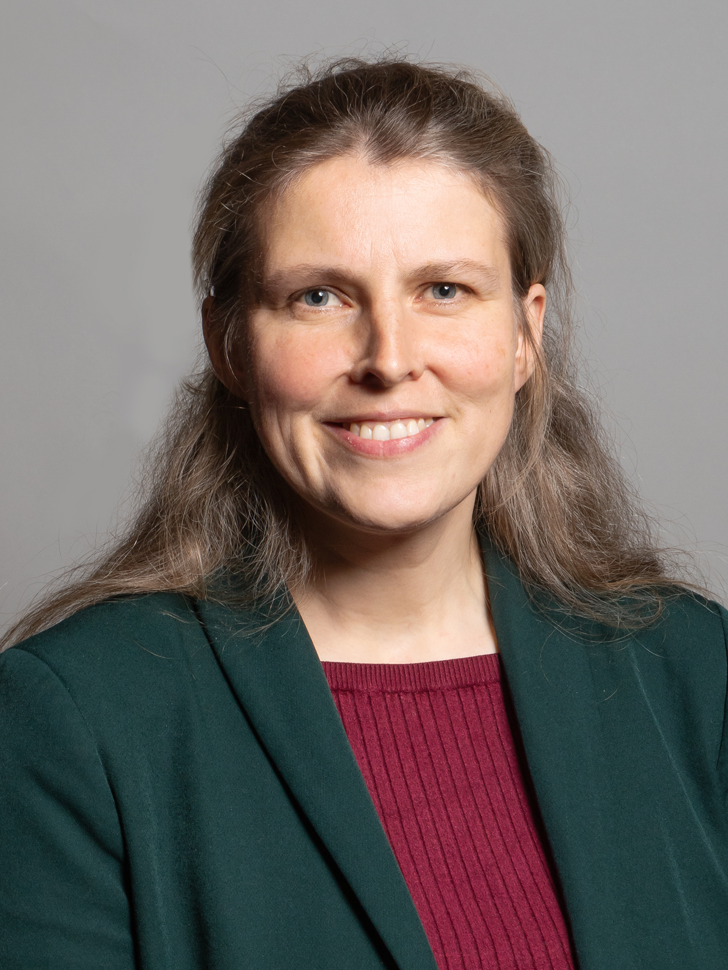 Official portrait of Rachael Maskell MP 3×4 portrait of Rachael Maskell